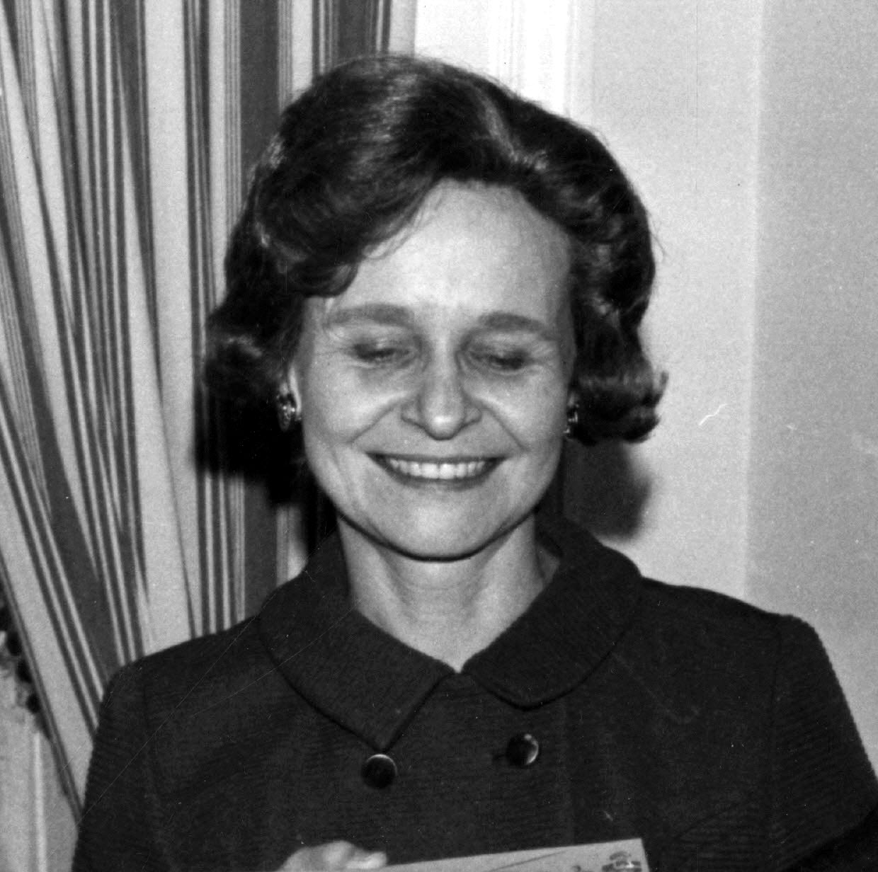 Virginia C. Purdy cropped from a pic of James B. Rhoads, Archivist of the United States (right), holding an award for the Formation of the Union catalog with Steven Tutellian, regional sales manager for the Edward Stern Majestic Press of Philadelphia, and Virginia C. Purdy, Educational Programs